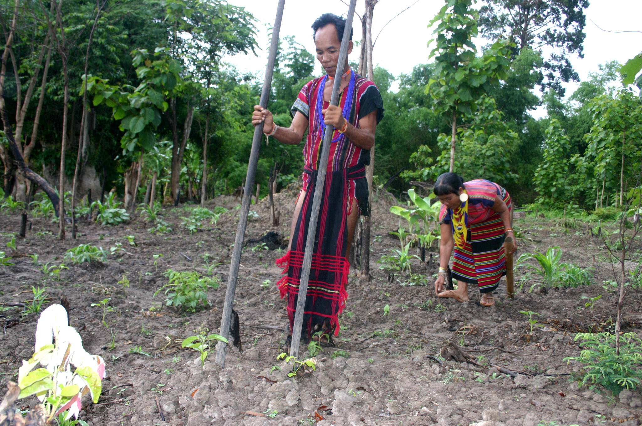 A Brao couple in Attapeu province of Laos plant: The husband makes holes while his wife drops in seeds and covers them with soil. This system is used for rice, corn, sesame, and other grains. They are both wearing the traditional hand-woven, striped clothing of the Brao, one of the 49 ethnic groups recognized by the Lao government.